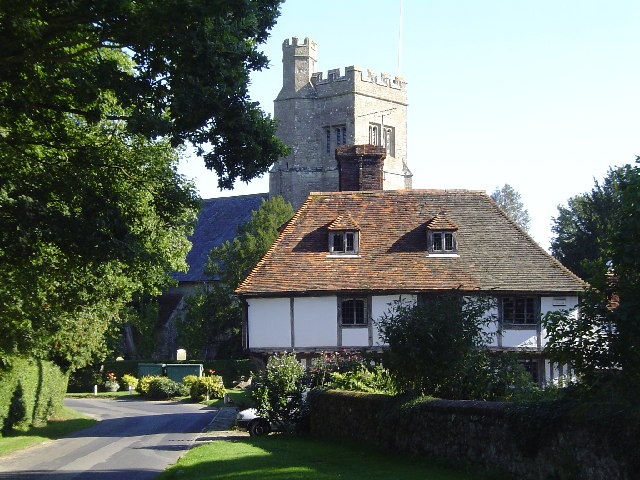 Smarden Church. A picturesque Village with many charms. This view can be seen in the Agatha Christie's Marple (TV Series) episode "The Moving Finger" (2006).